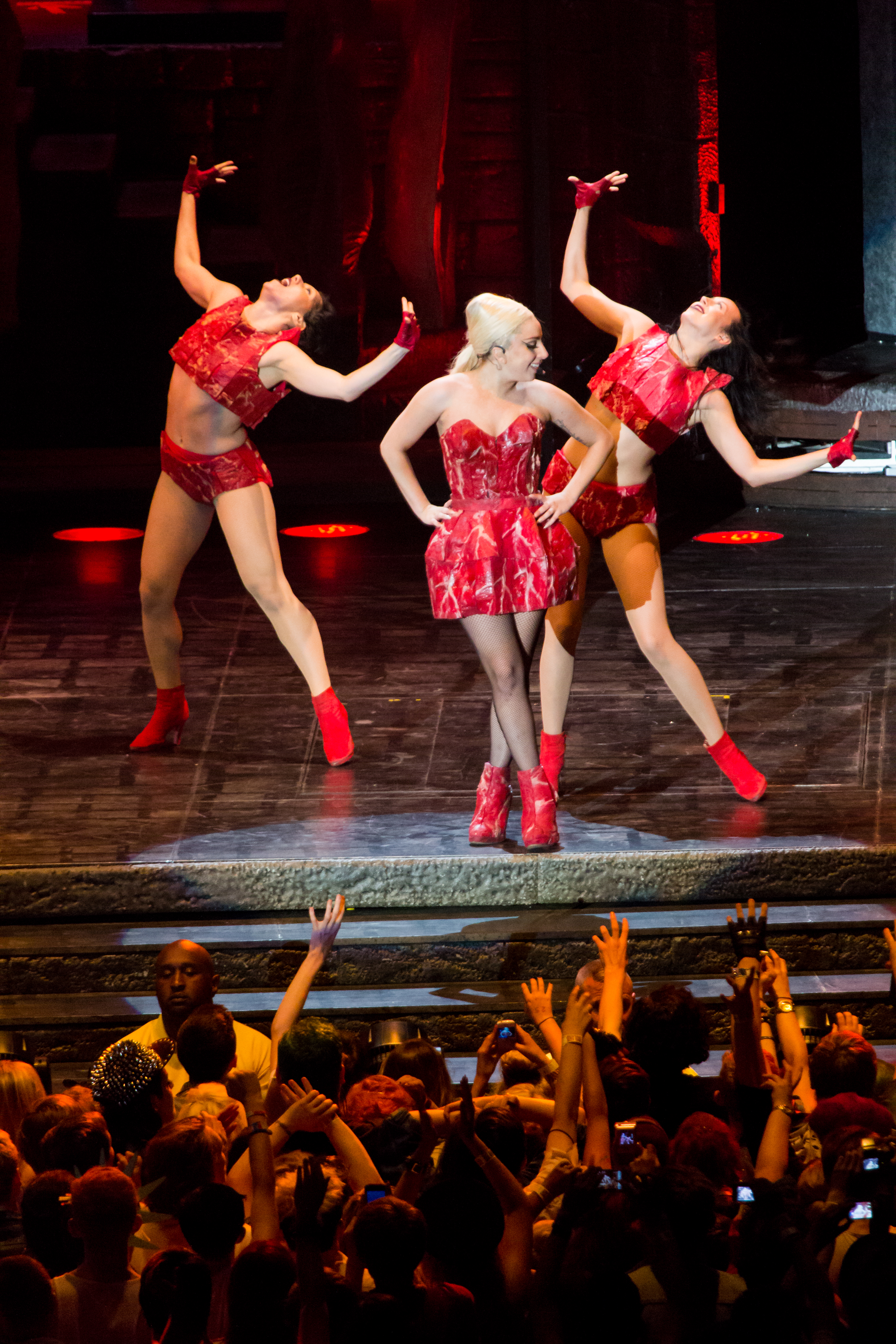 Lady Gaga performing "Americano" on The Born This Way Ball Tour in Manchester, UK.